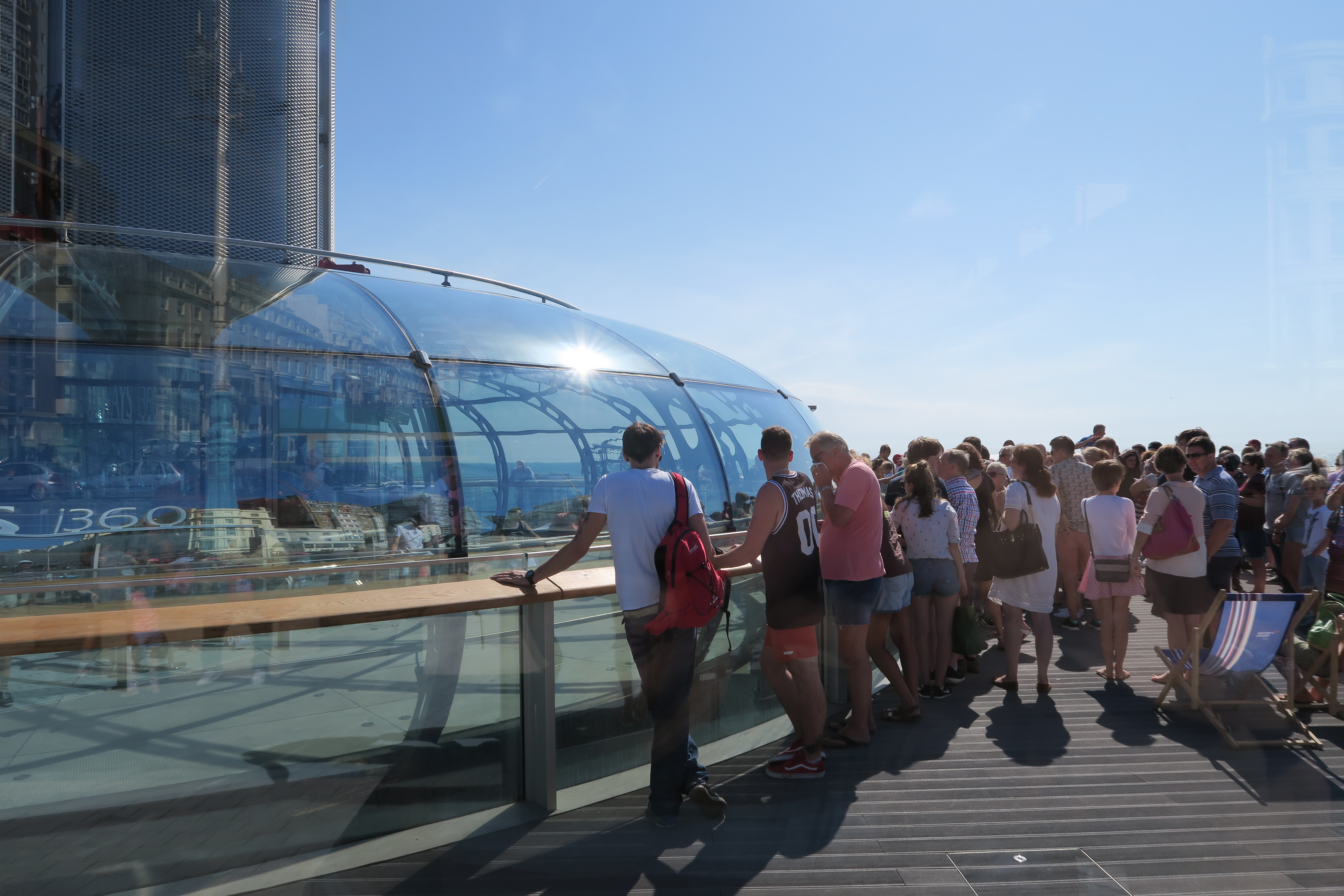 Passengers entering i360 pod